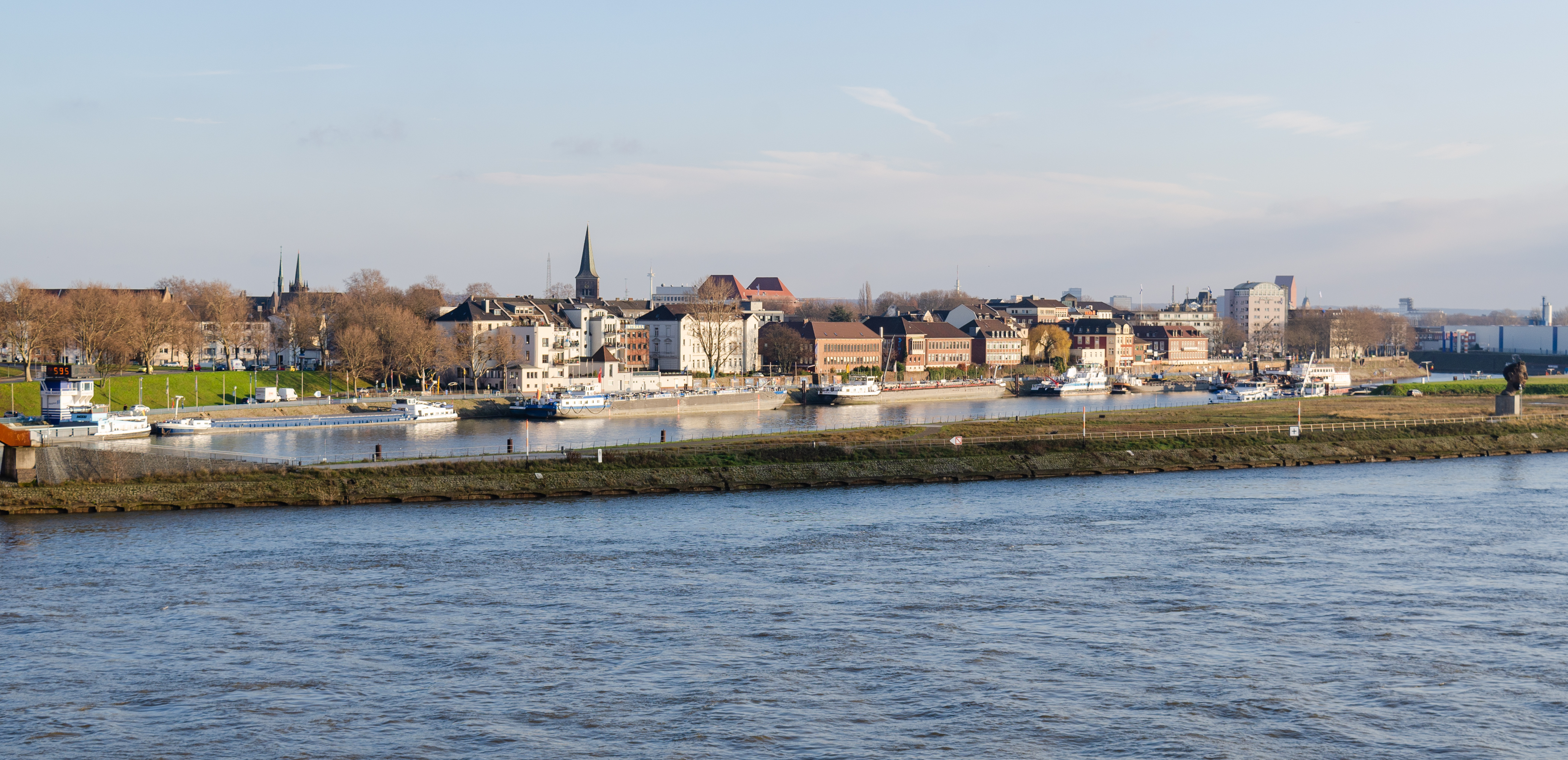 Duisburg (North Rhine-Westphalia, Germany) – borough Homberg/Ruhrort/Baerl, district Ruhrort – cityscape, view from the Friedrich Ebert Bridge